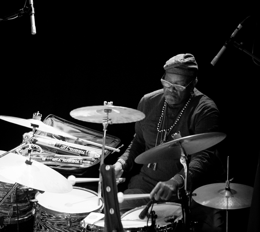 Don Moye with Art Ensemble of Chicago at the stage of Energimølla. The concert was part of Kongsberg Jazzfestival and took place on 07. July 2017.Lineup: Roscoe Mitchell (saxophone), Hugh Ragin (trumpet), Jaribu Shahid (double bass), Don Moye (drums)